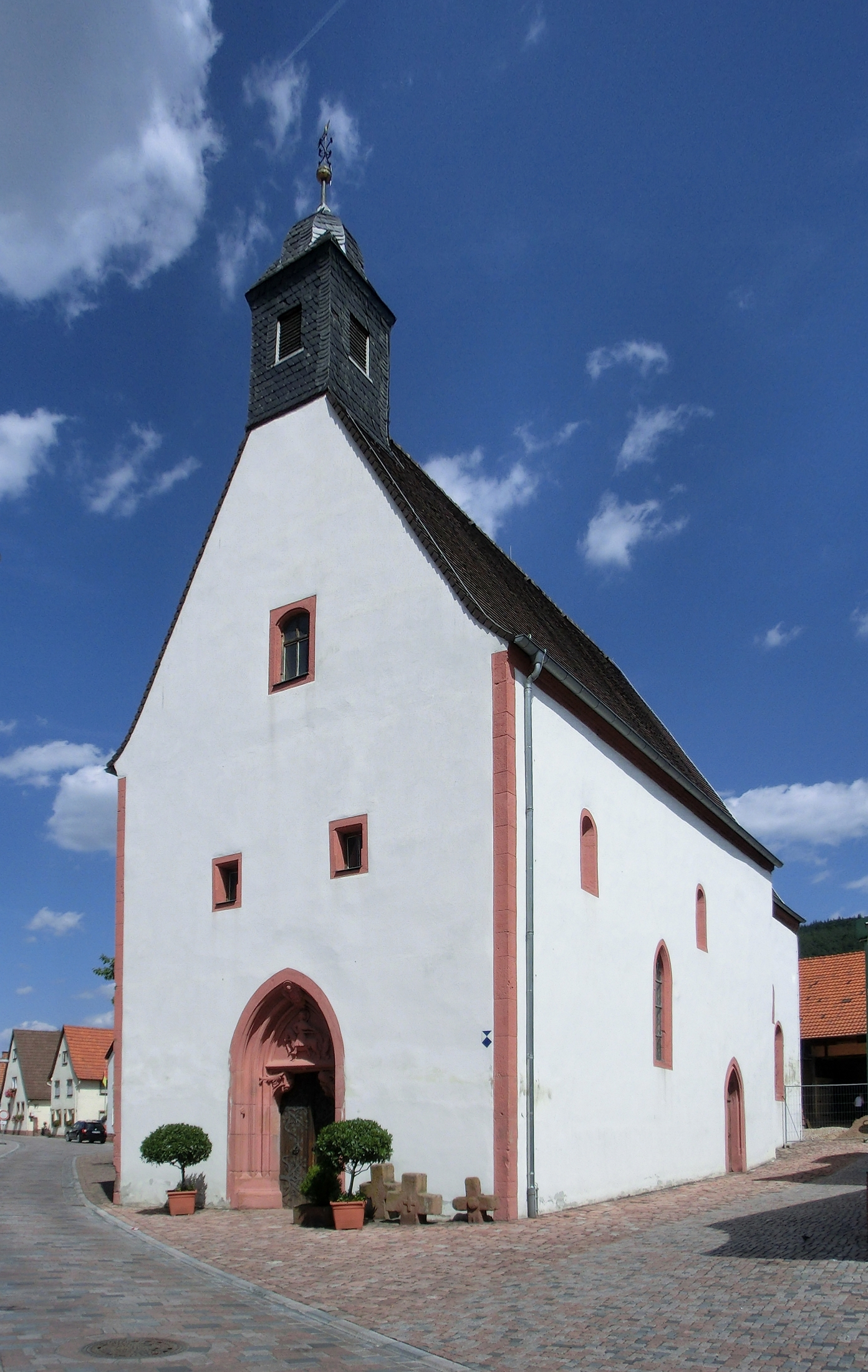 St. Martin's chapel in Bürgstadt, Lower Franconia.